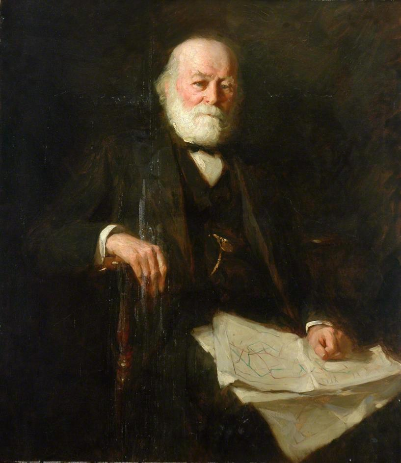 Portrait of the british ironmaster Isaac Lowthian Bell (1816-1904).